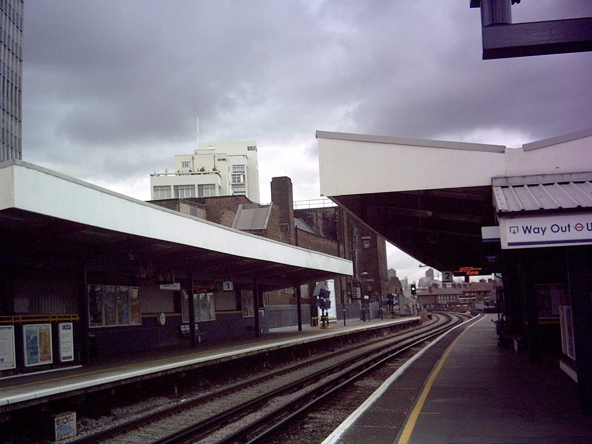 Elephant & Castle National Rail Station - platforms 1 & 2 - taken by me, 12.30pm, Friday 17 February 2006. - Londoneye 10:25, 18 February 2006 (UTC)